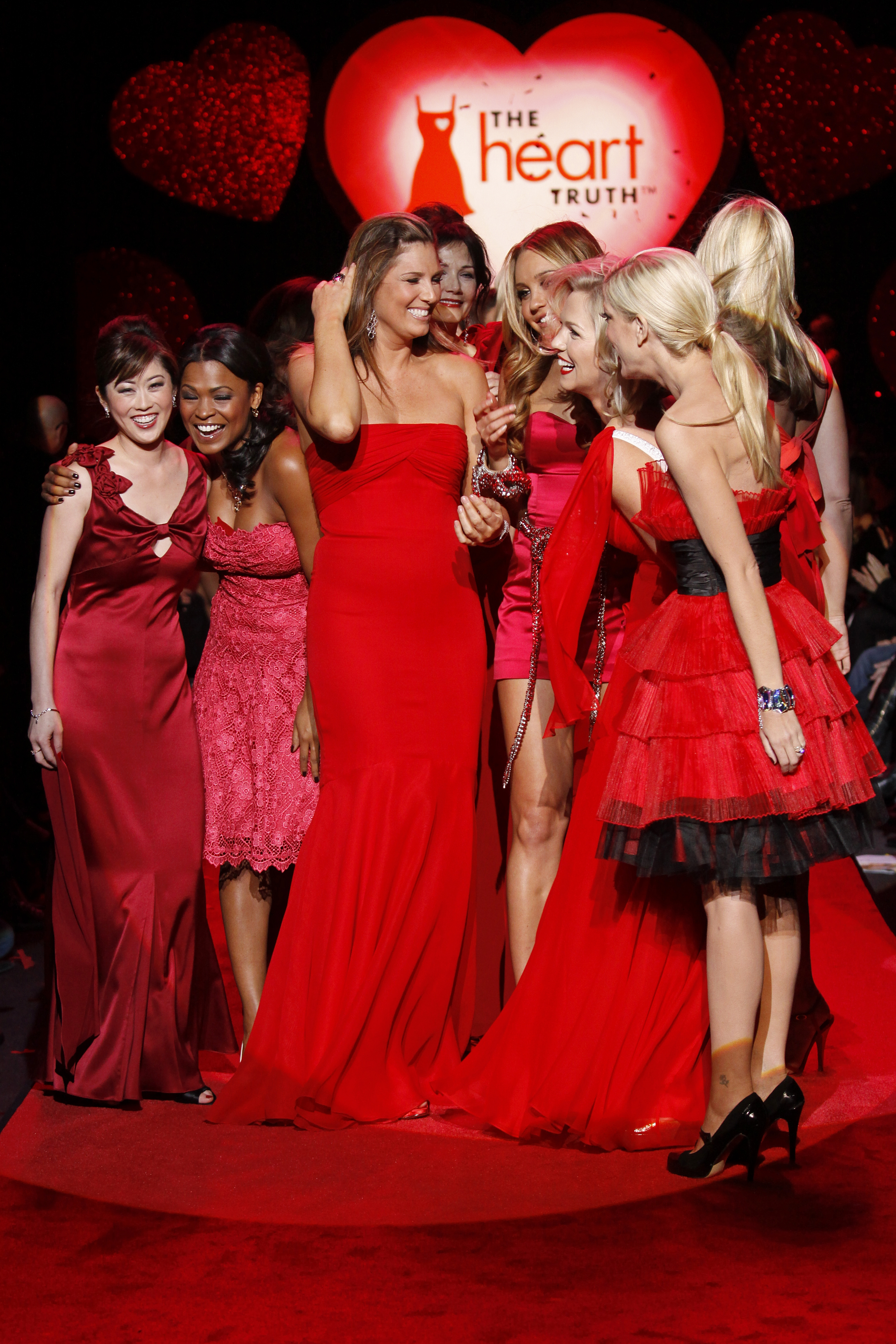 Twenty of Hollywood’s leading ladies paired with America’s leading fashion designers joined The Heart Truth for the sixth heartfelt showing of the campaign’s Red Dress Collection Fashion Show.